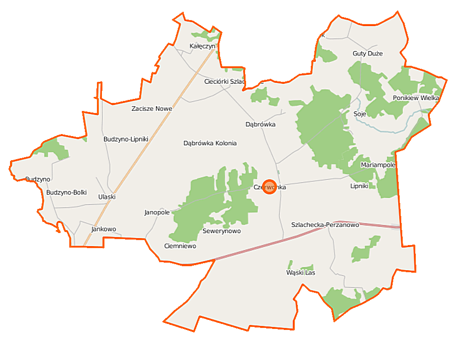 Map of Gmina Czerwonka, Poland This map of Czerwonka (gmina) was created from OpenStreetMap project data, collected by the community. This map may be incomplete, and may contain errors. Don't rely solely on it for navigation. Border coordinates52.954221.0701←↕→21.321052.8409